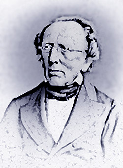 Digital art of photograph (circa 1875)